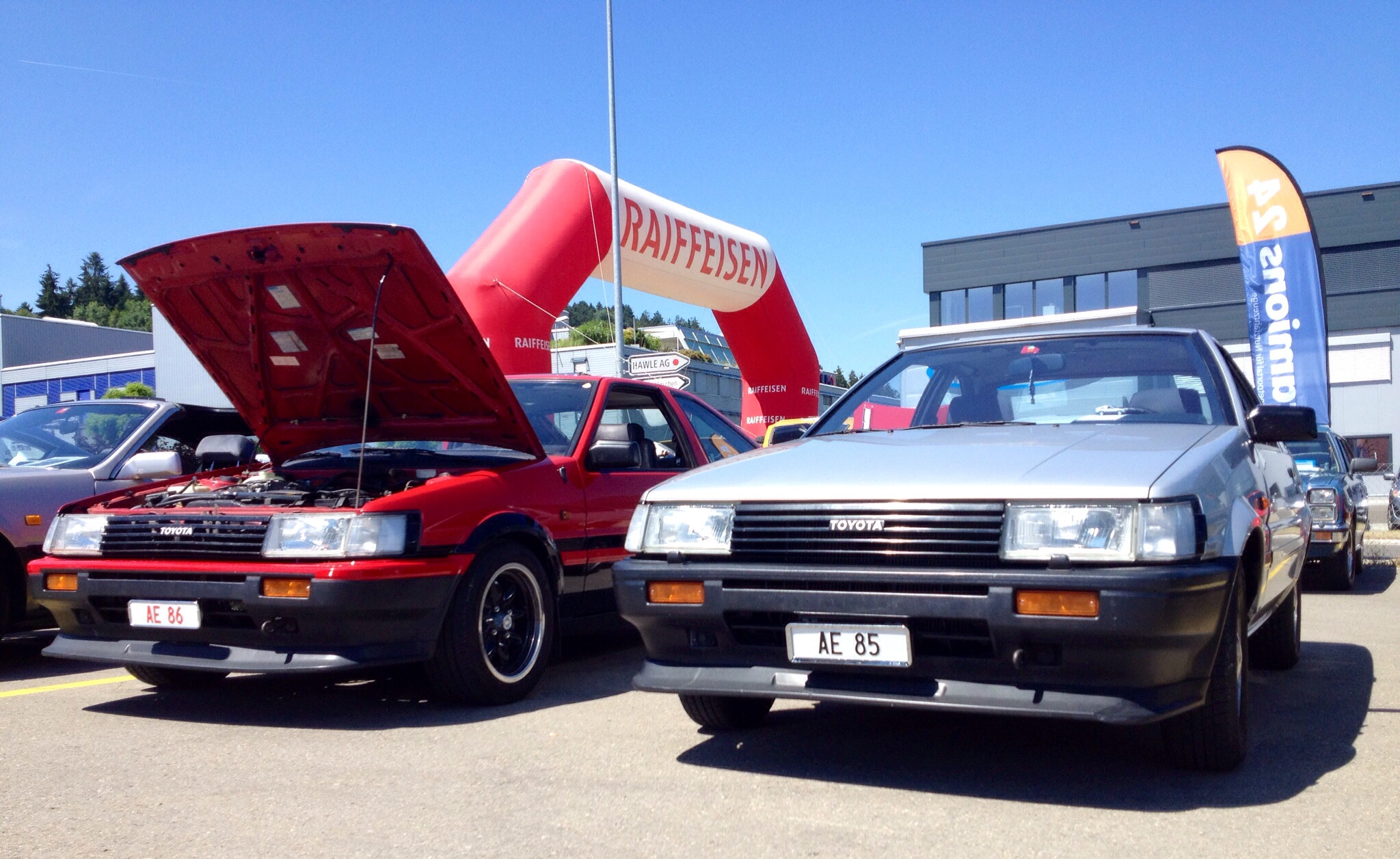 A comparison of the AE86 (red) and the AE85 (grey).